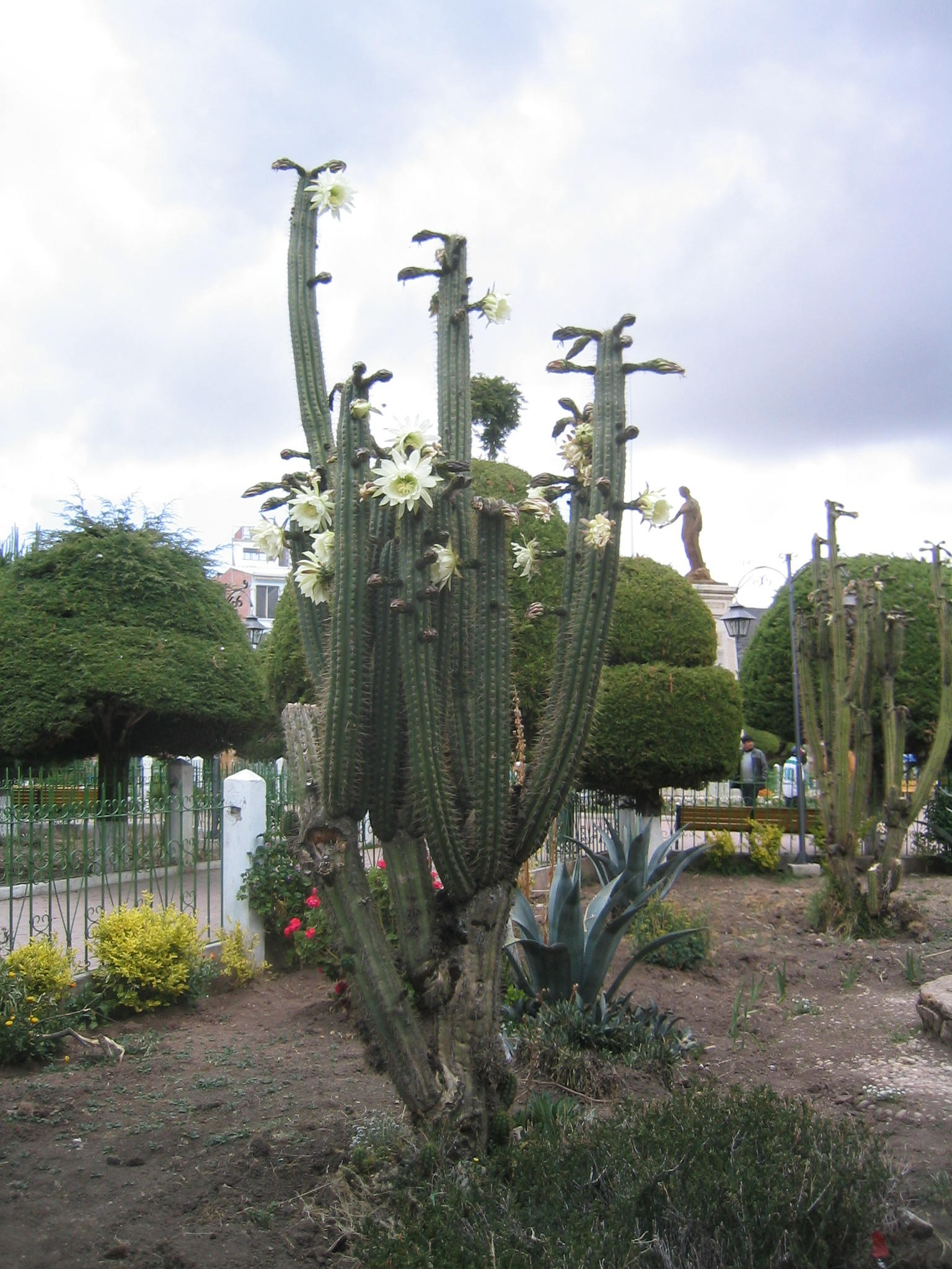 Echinopsis pachanoi